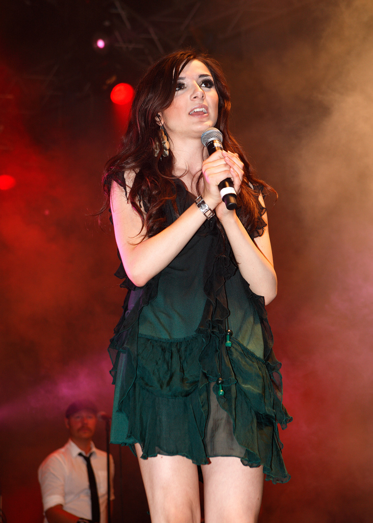 Sibel Redzep performing in Jönköping, Sweden, at RixFM Music Festival.